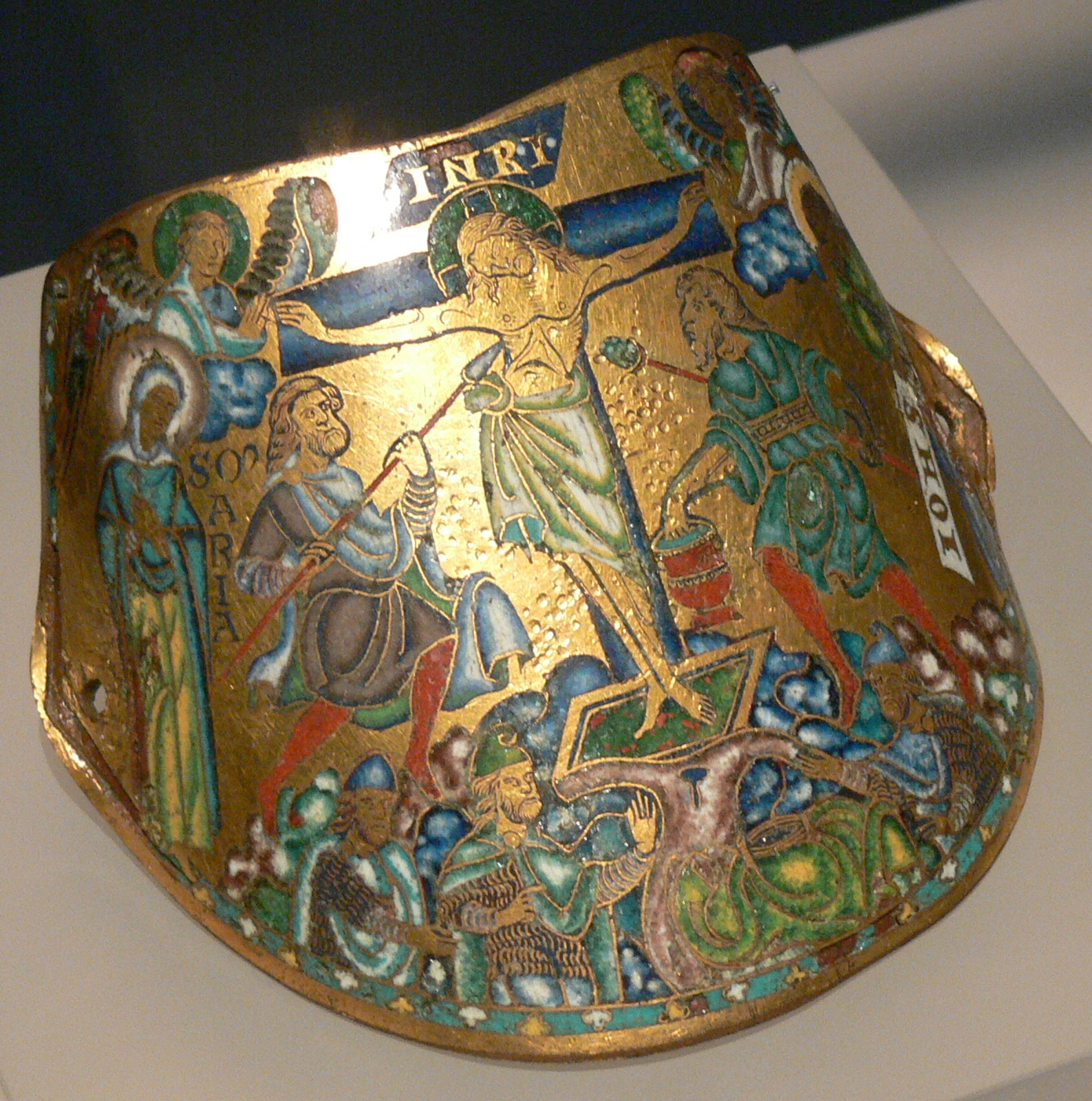 German National Museum ( Nuremberg / Germany ). Armlet ( Armilla ) showing the crucifixion of Christ ( 1170/1180 ).